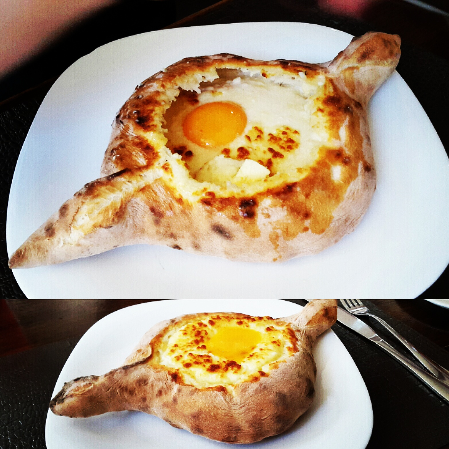 Adjarian Khachapuri as made in Batumi, region of Adjara, Georgia.